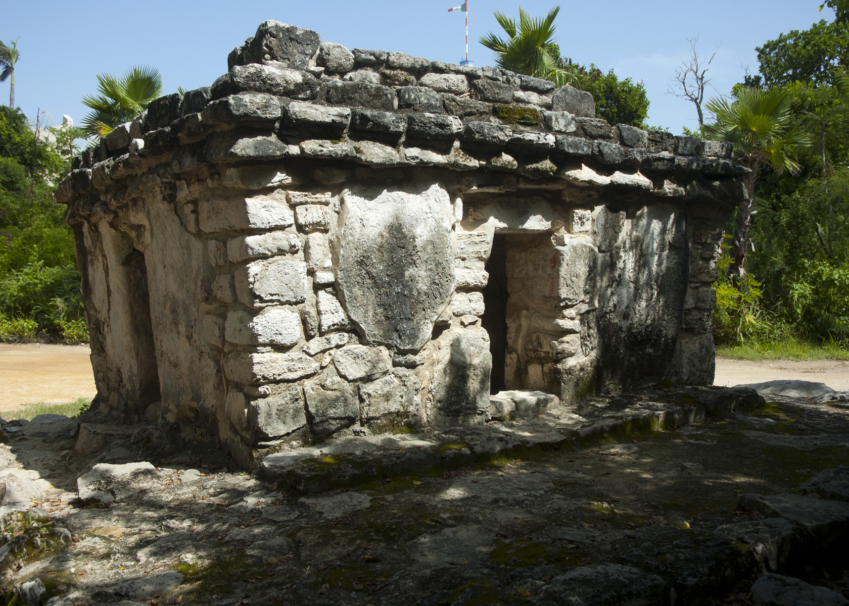 Es parte de los vestigios que conserva el parque